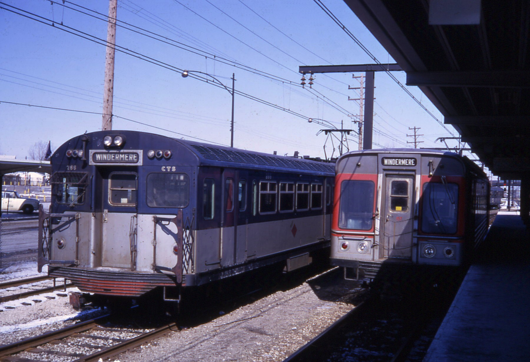 Cleveland Transit System trains at the West Park station